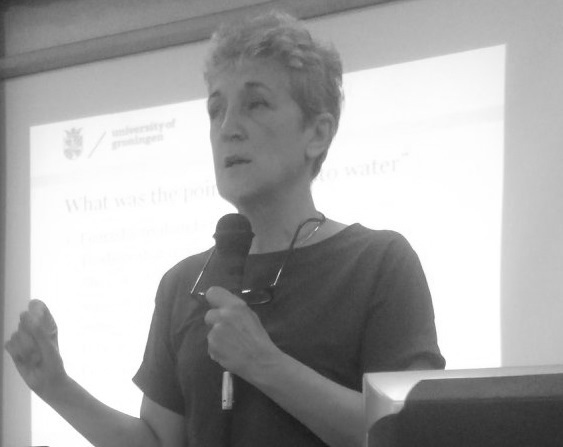 Verspoor's presentation in Vietnam in 2018